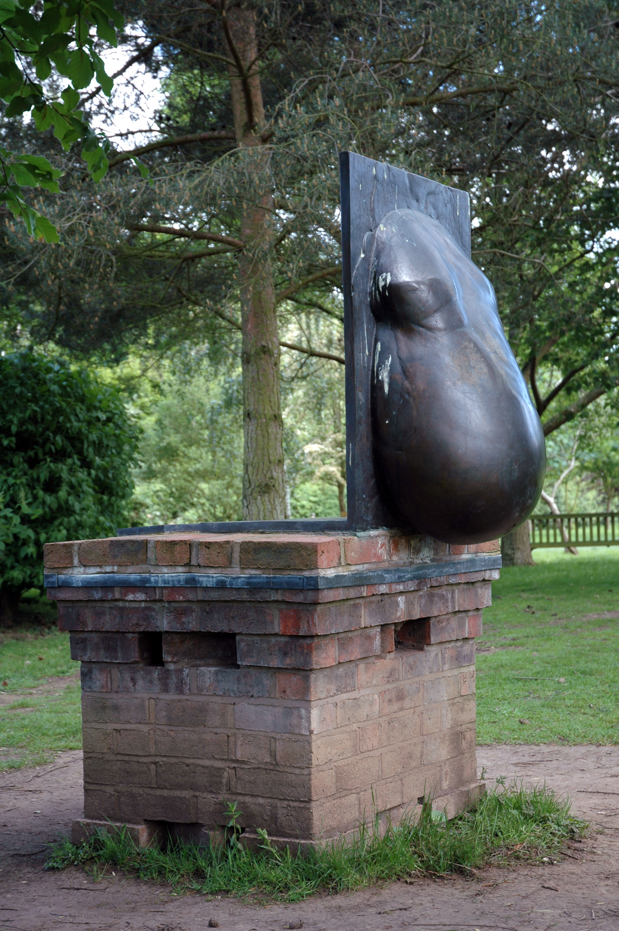 Falstaff, What is Honour by Niels Helvig Thorsen, a maquette of Falstaff's large belly, on the sculpture trail at Anne Hathaway's Cottage & Gardens